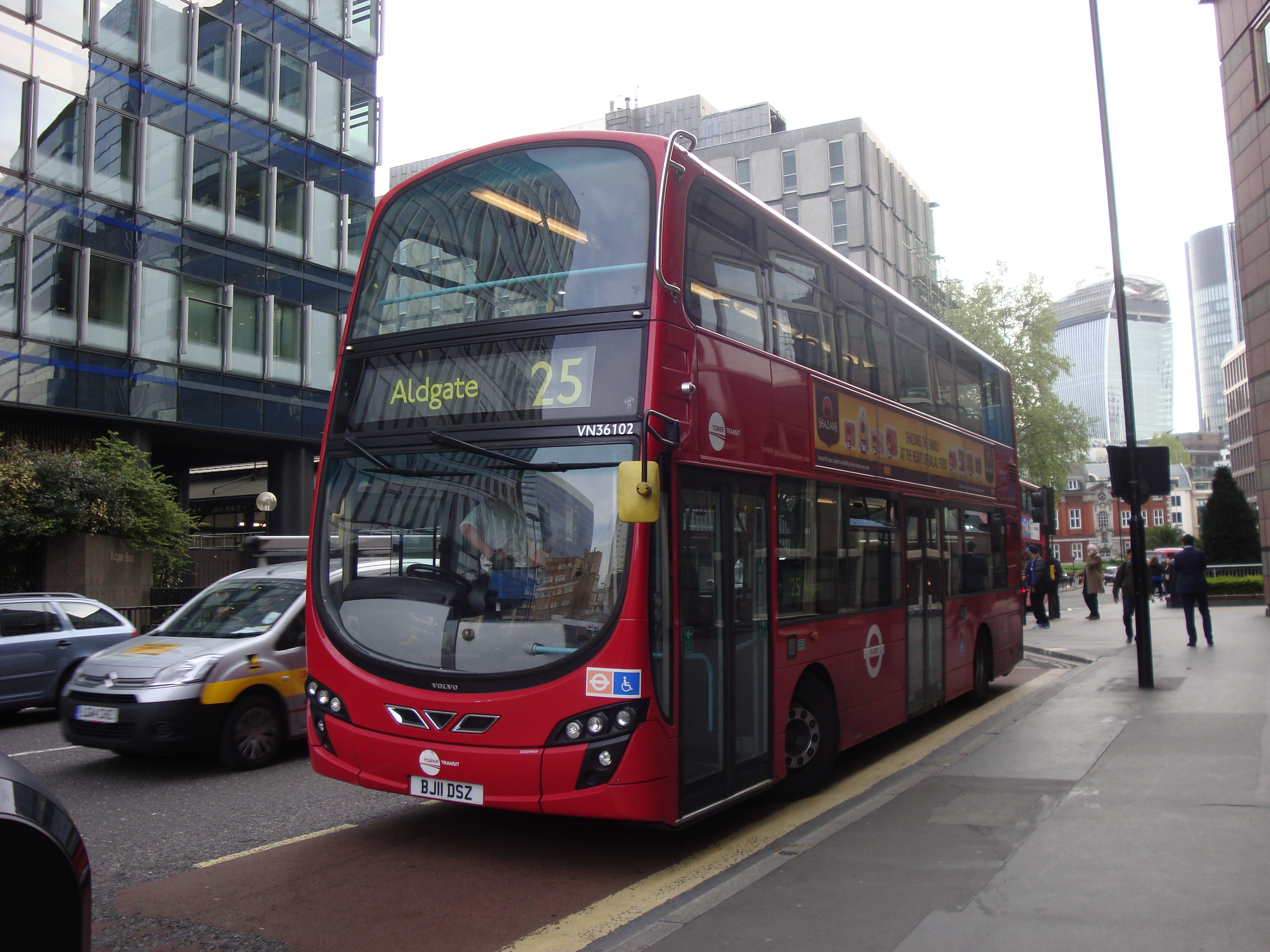 Route 25 bus on St Botolph Street, London EC3A